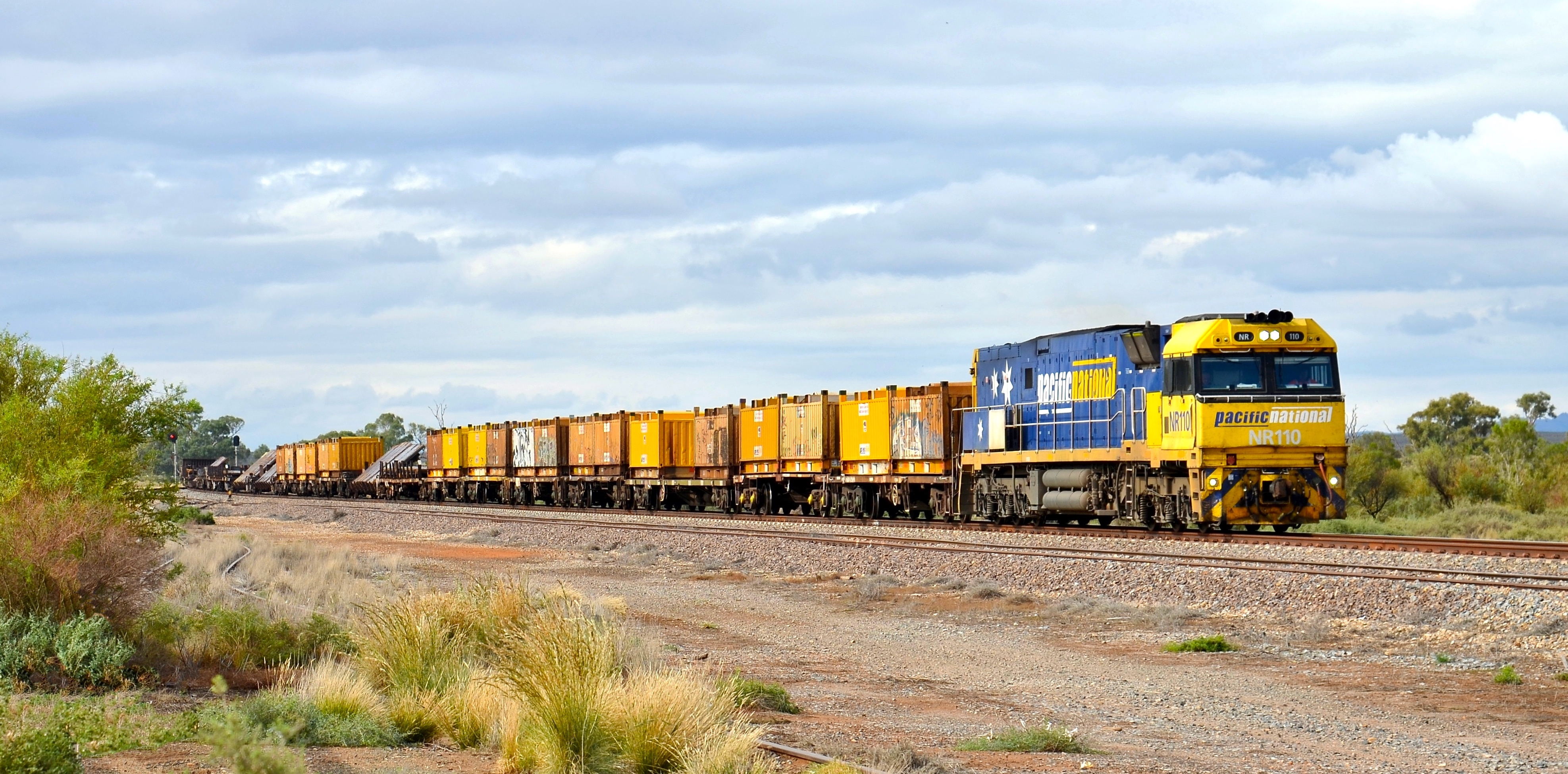 A Pacific National train carrying steel products from Newcastle, New South Wales, to Whyalla, South Australia, through Yunta on the Crystal Brook-Broken Hill railway line on 21 April 2017